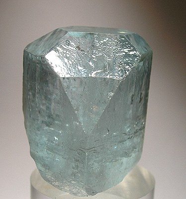 Topaz Locality: Alabashka pegmatite field, Yuzhakovo Village, Ekaterinburgskaya (Sverdlovskaya) Oblast', Middle Urals, Urals Region, Russia (Locality at ) Superb, very gemmy crystal of rare blue topaz from old mining in Russia. These are cosidered highly desirable for both color and rarity! This fine crystal is complete all around save contact on the back face. Weight=33 grams 2.7 x 2.2 x 2 cm